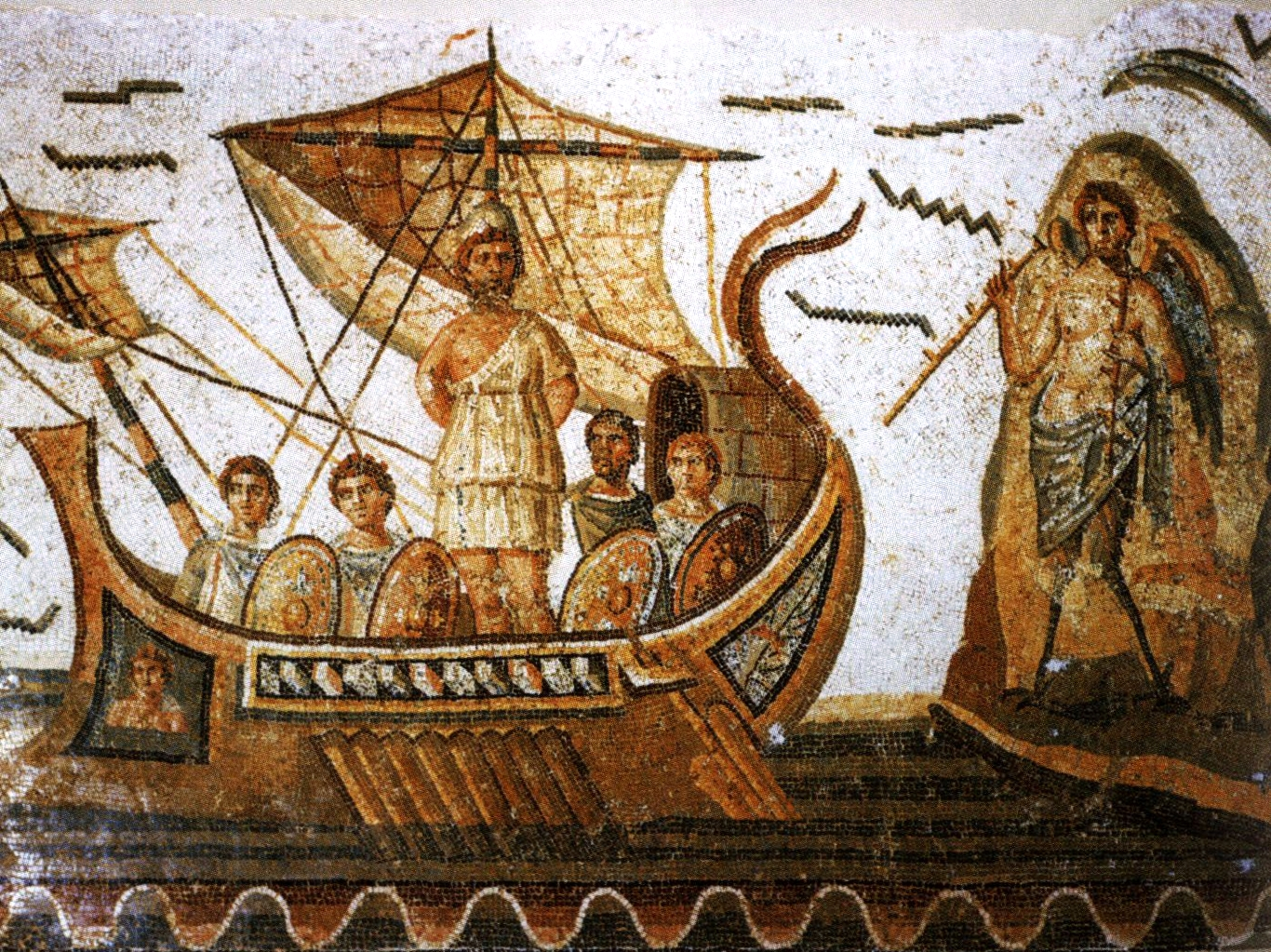 Roman mosaic dating from the 3rd century before Jesus representing Ulysses during the Odyssey.